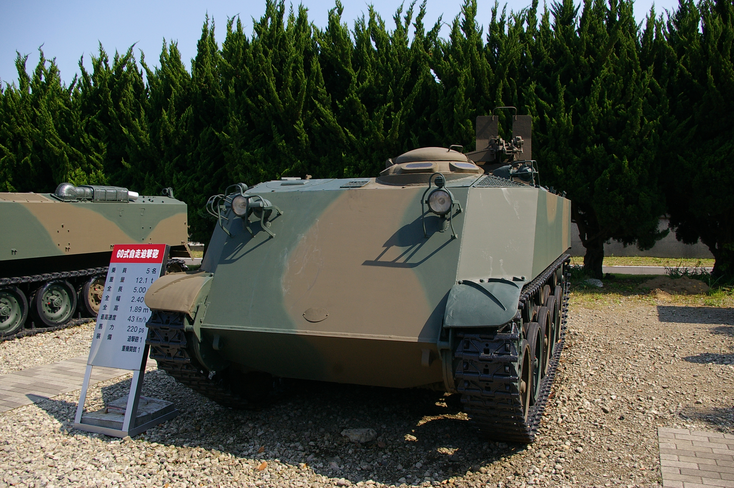 Taken by los688,18-May-2008,JGSDF Camp Kasumigaura.PD-self.JGSDF Type60 81mm self-propelled gun.